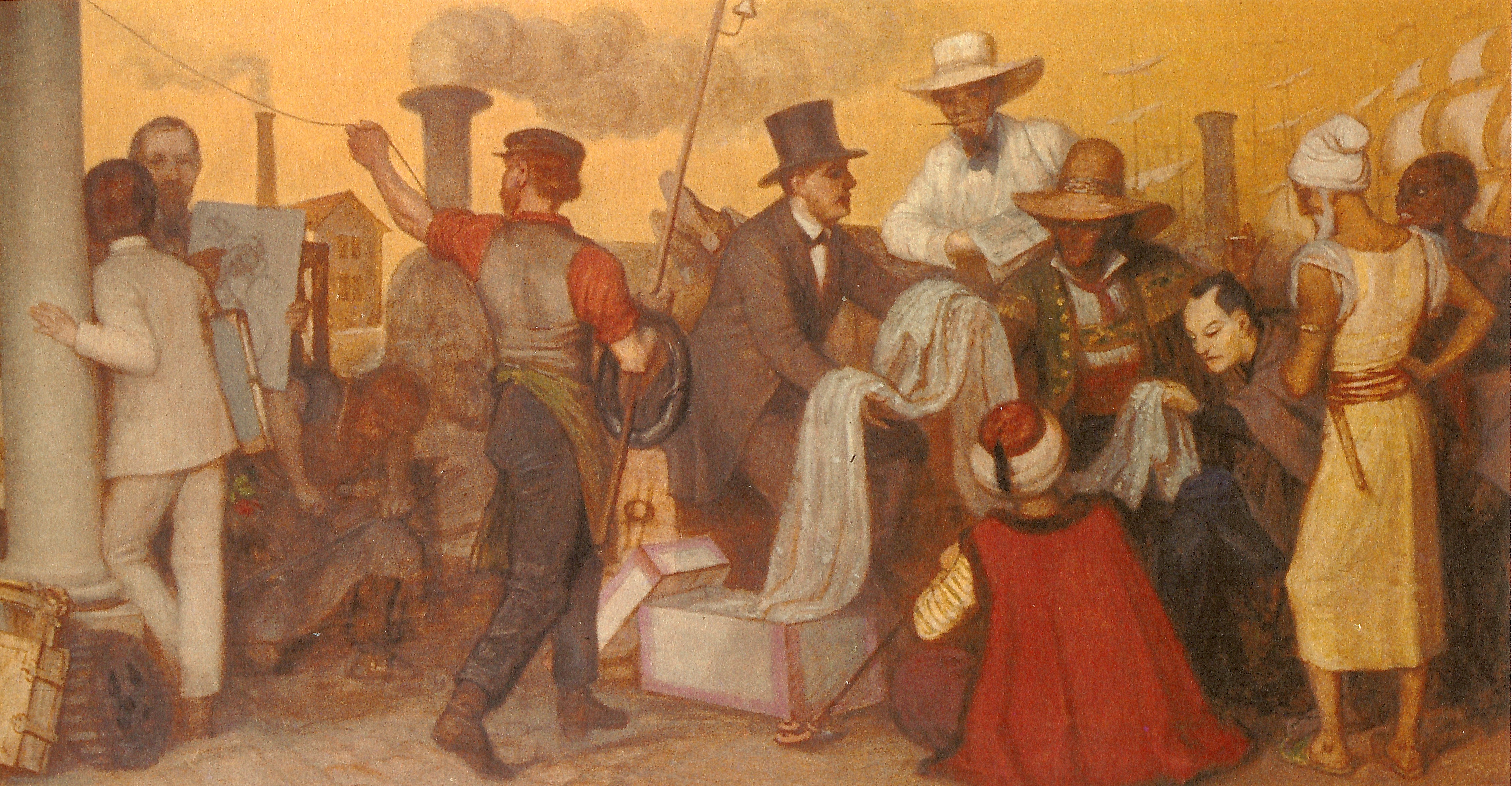 Excerpt from Trade and Industry of St. Gallen. The painting shows the embroidery world trade in the second half of the 19th century. Left: Embroidery patterns, then factories, the locomotive used for transporting the goods, the installation of a telegraph line. On the right side, the embroidery is presented to the representatives of all continents.